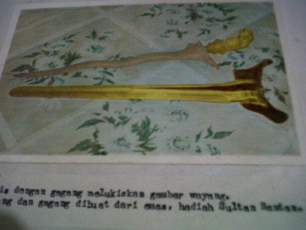 Hadiah sultan banten